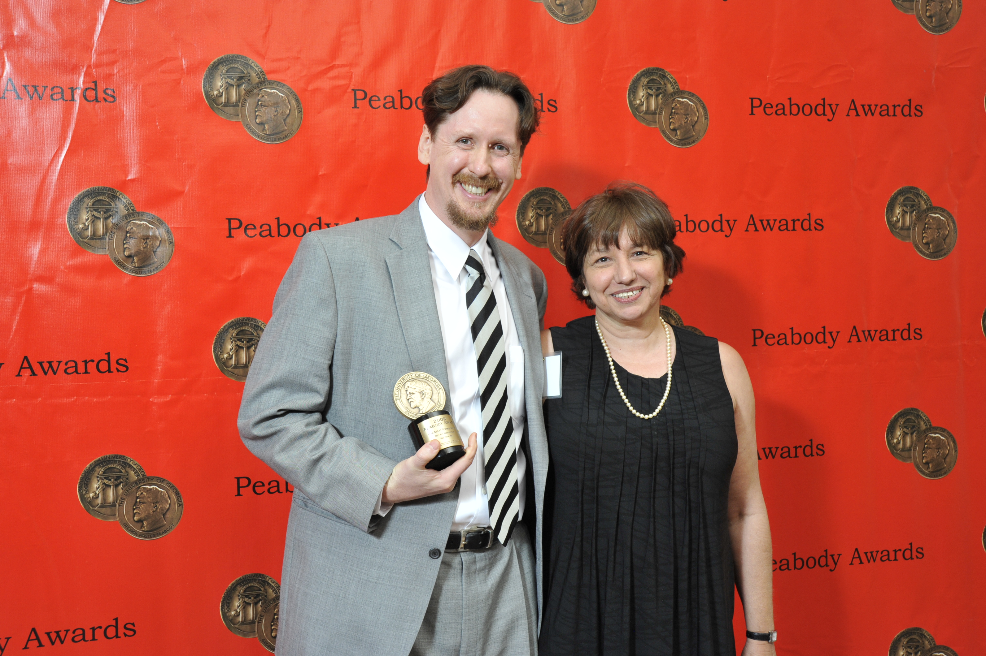 Trey Kay and Deborah George with a Peabody Award for The Great Textbook War, broadcast on WVPB 69th Annual Peabody Awards Luncheon, Waldorf=Astoria Hotel, New York, NY USA, May 17, 2010